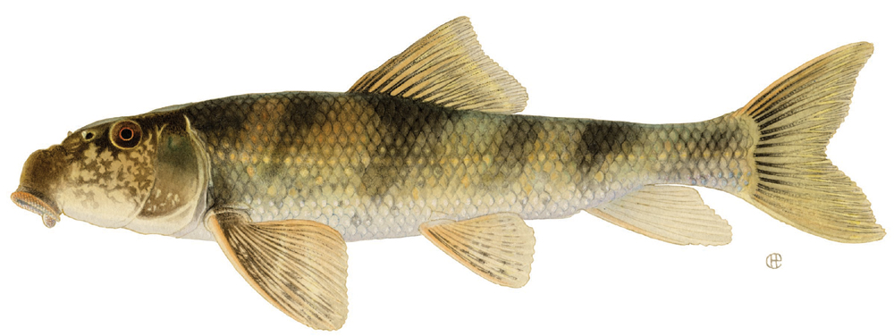 Northern hogsucker (Hypentelium nigricans)